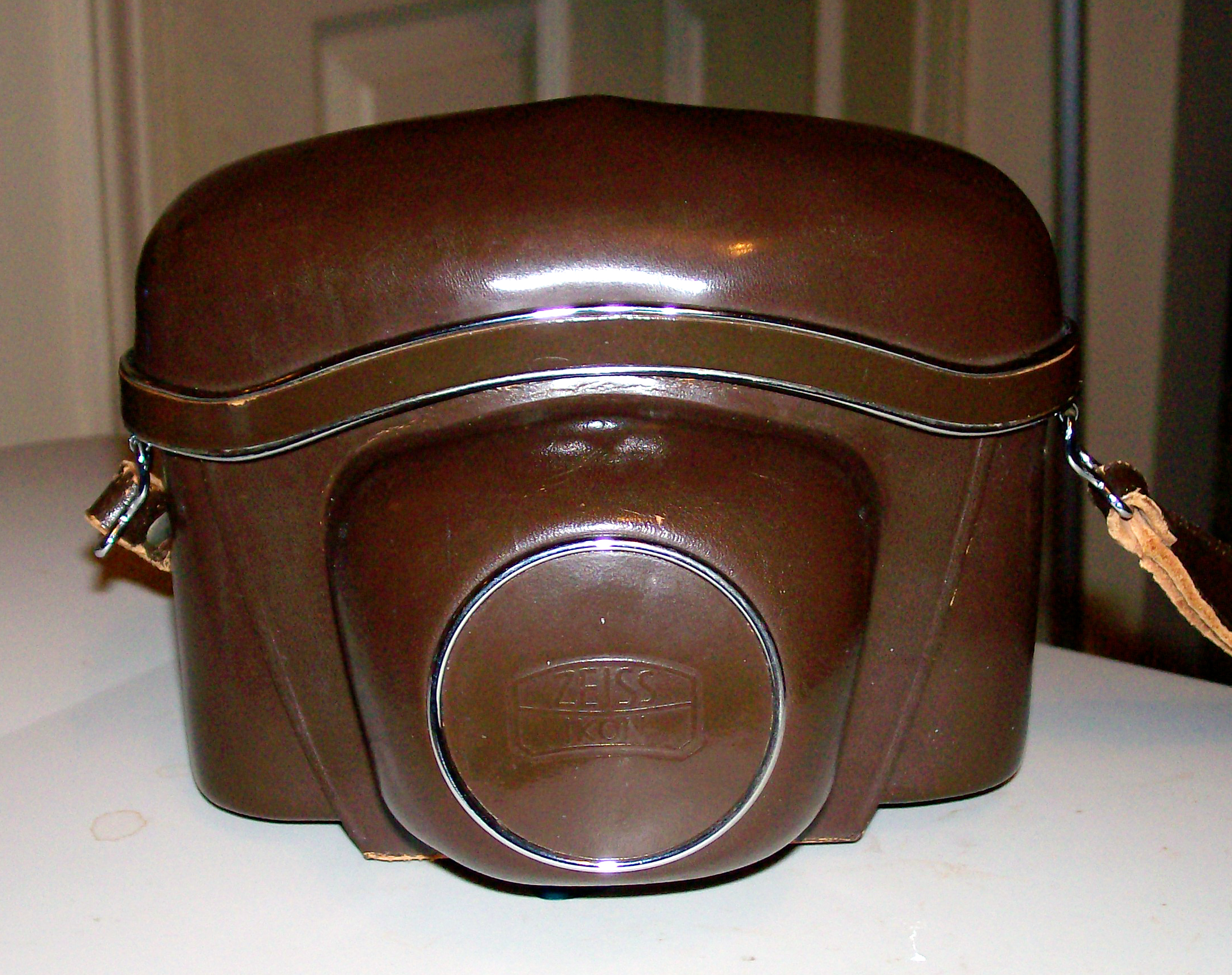 Contaflex SuperB leather case康泰单反相机棕色皮套